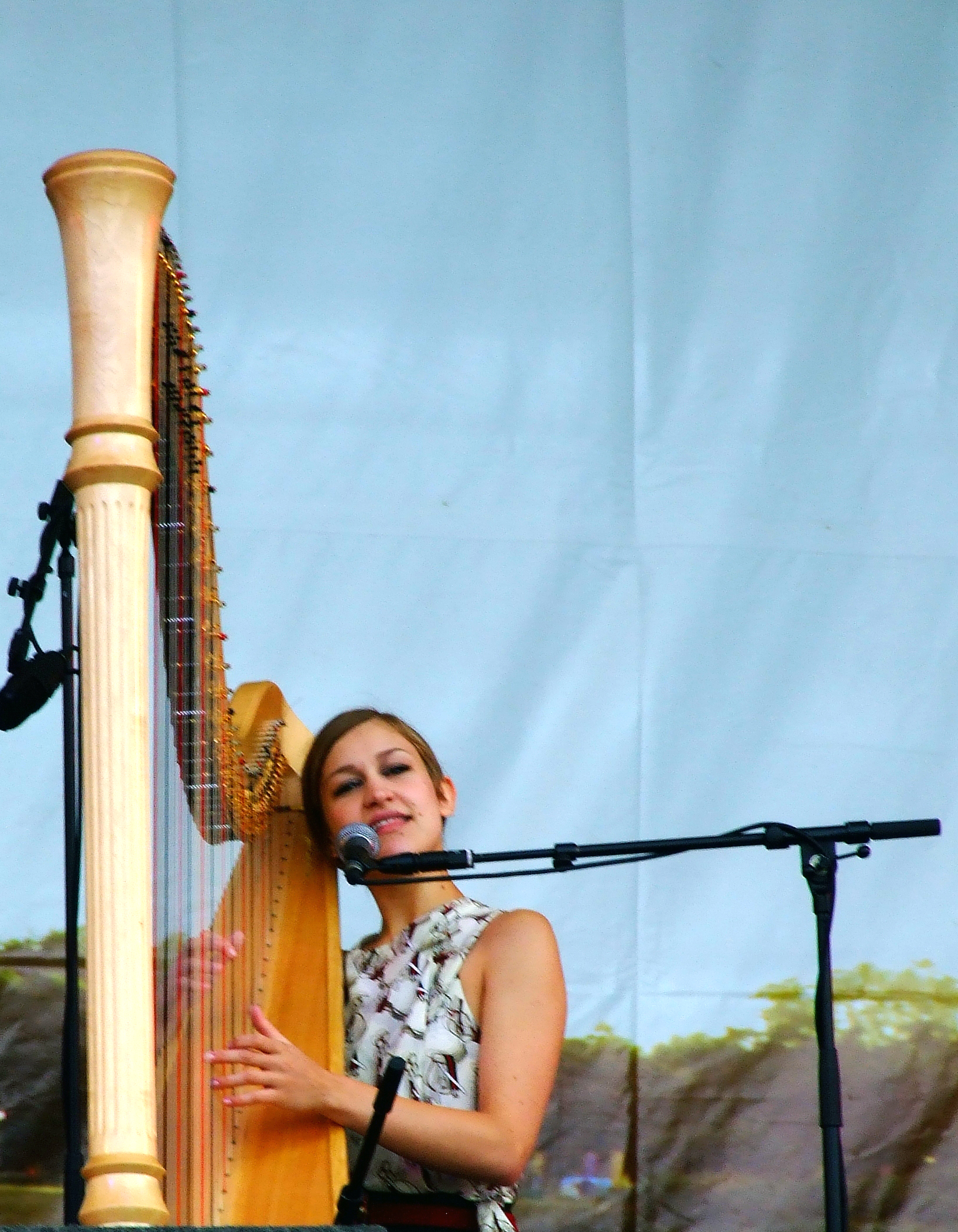 Joanna Newsom at the 2008 Latitude Festival